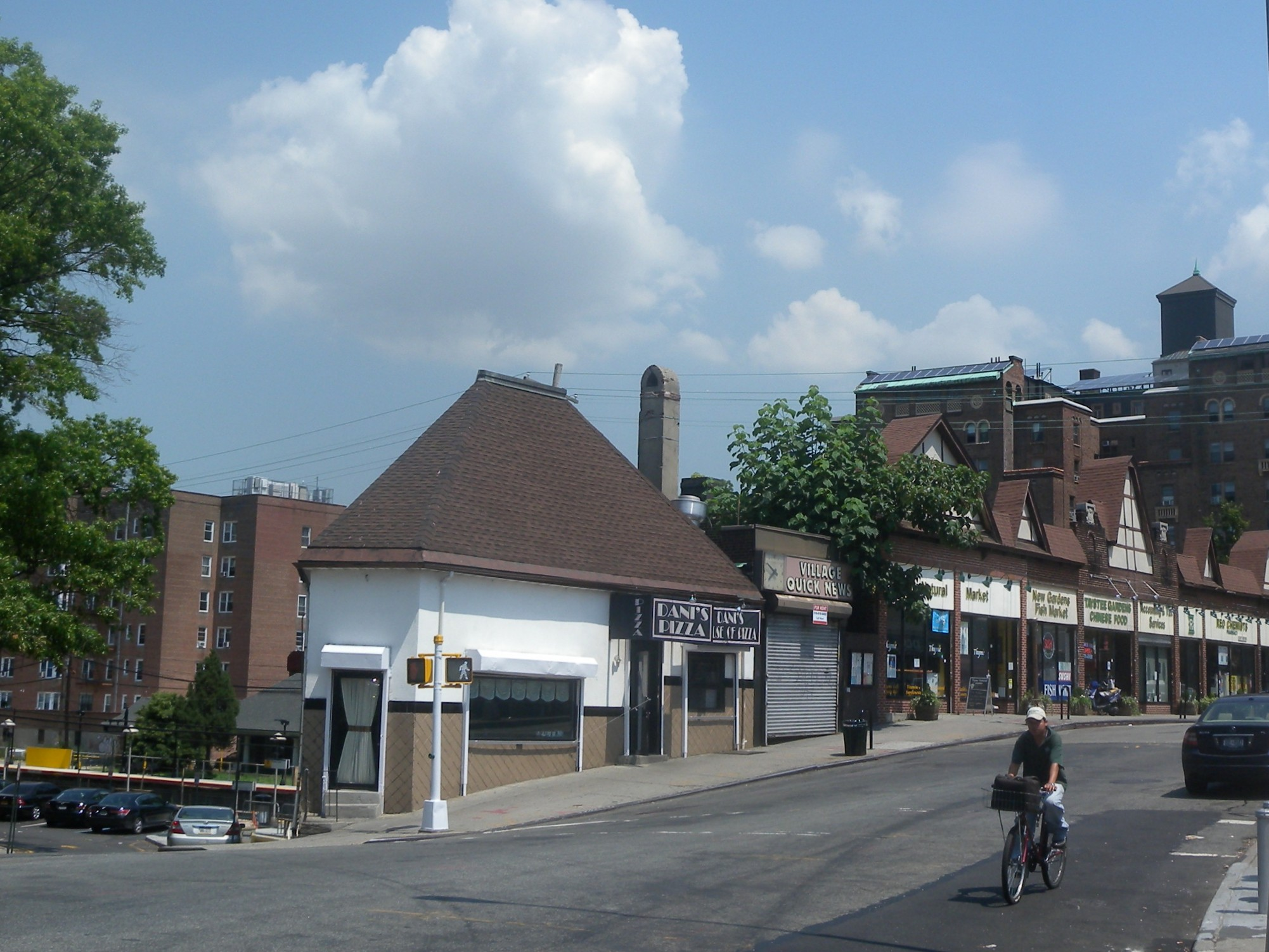 Looking north at shops on a sunny midday. Apart from the pizza place, all are on the Lefferts Avenue Bridge over the station glimpsed on left.